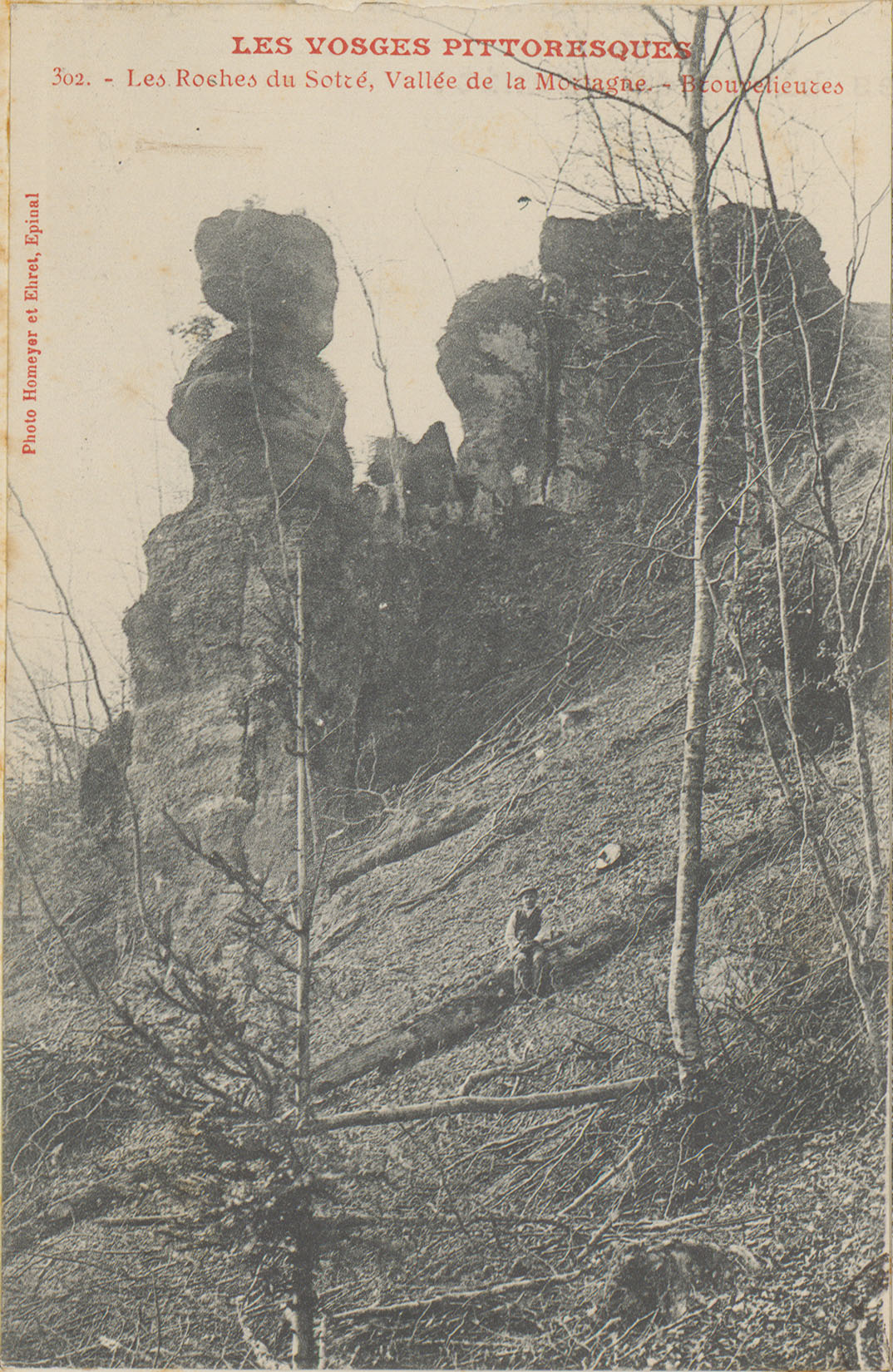 vallée de la Mortagnecarte postale / photo.Tapuscrit inventaire touring club